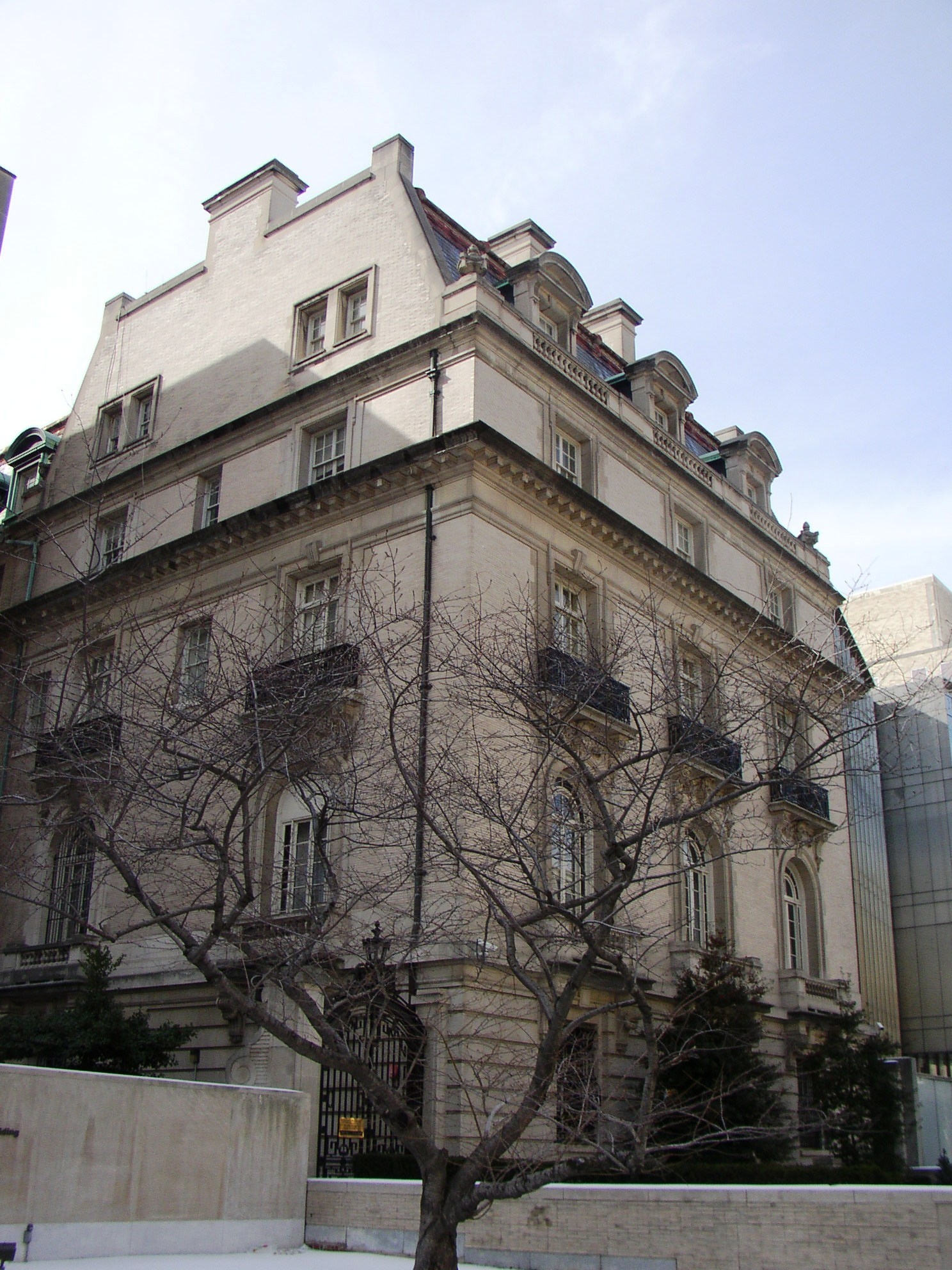 Embassy of Uzbekistan to the United States. Located 0n Massachusetts Avenue in Washington, D.C. Photo taken by uploader in February 2007. All rights released. Williamborg 16:50, 18 February 2007 (UTC)